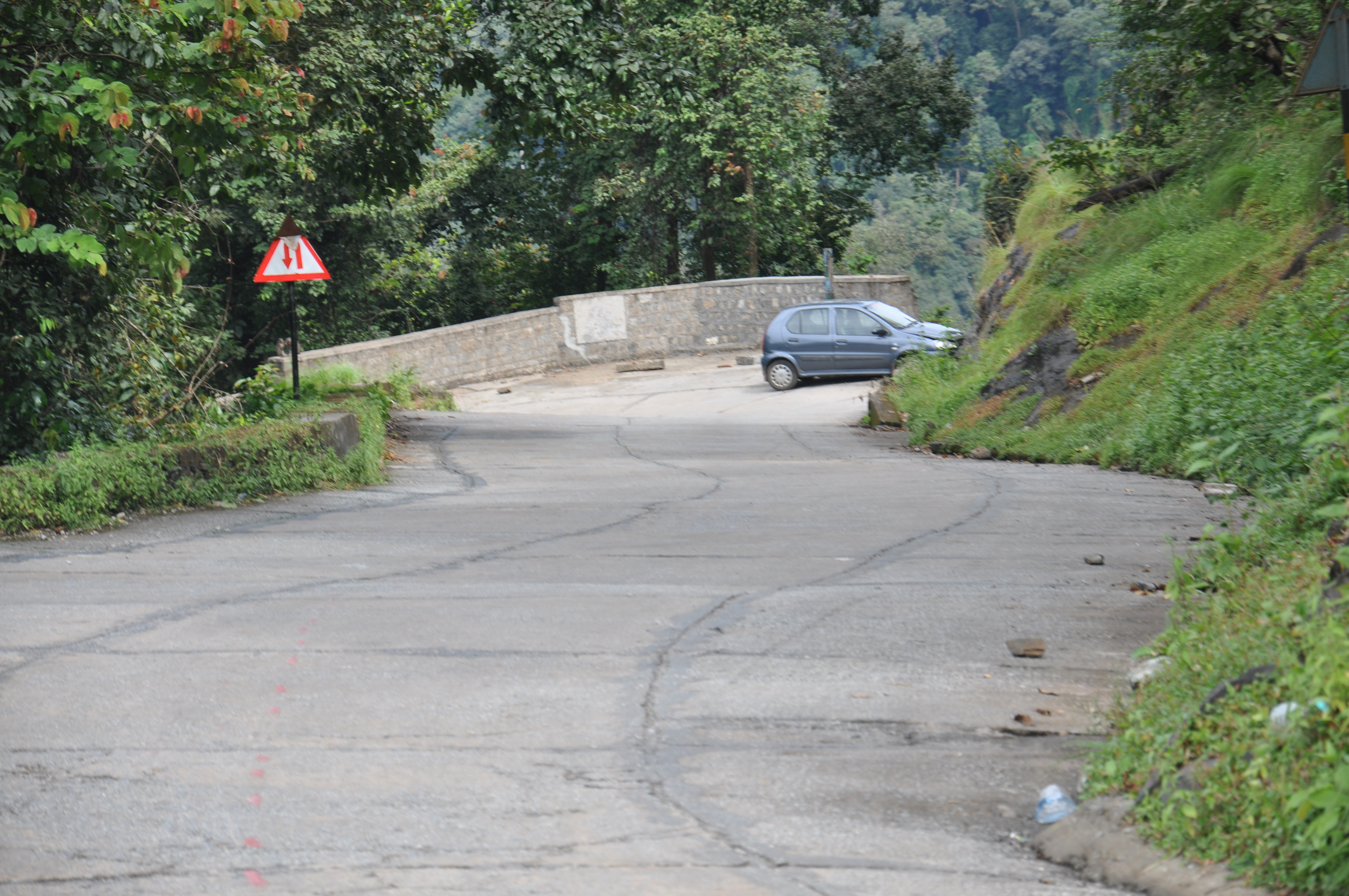 Frequently Happening Accidents